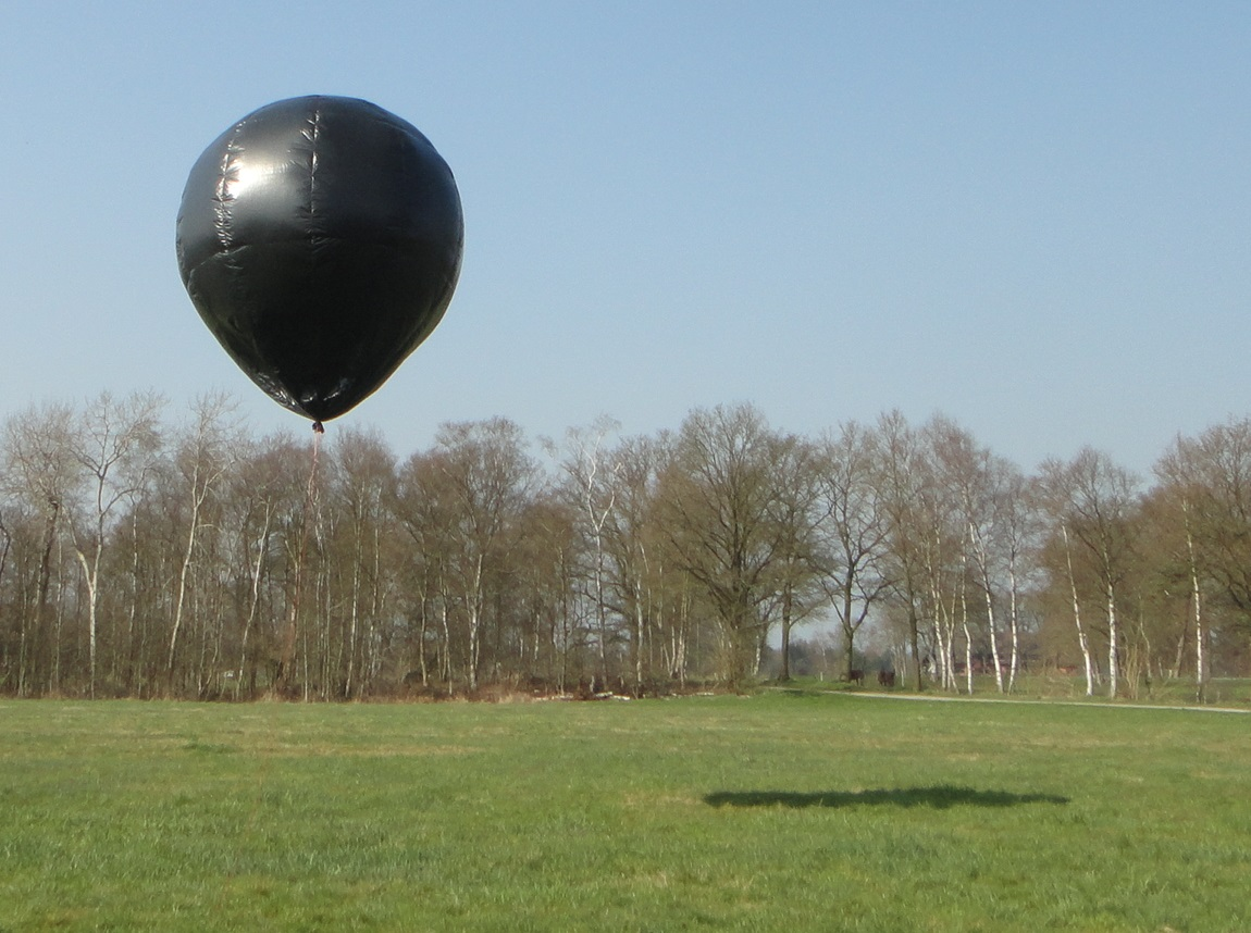 Self-made solar balloon of 4 meters height floating over a meadow.